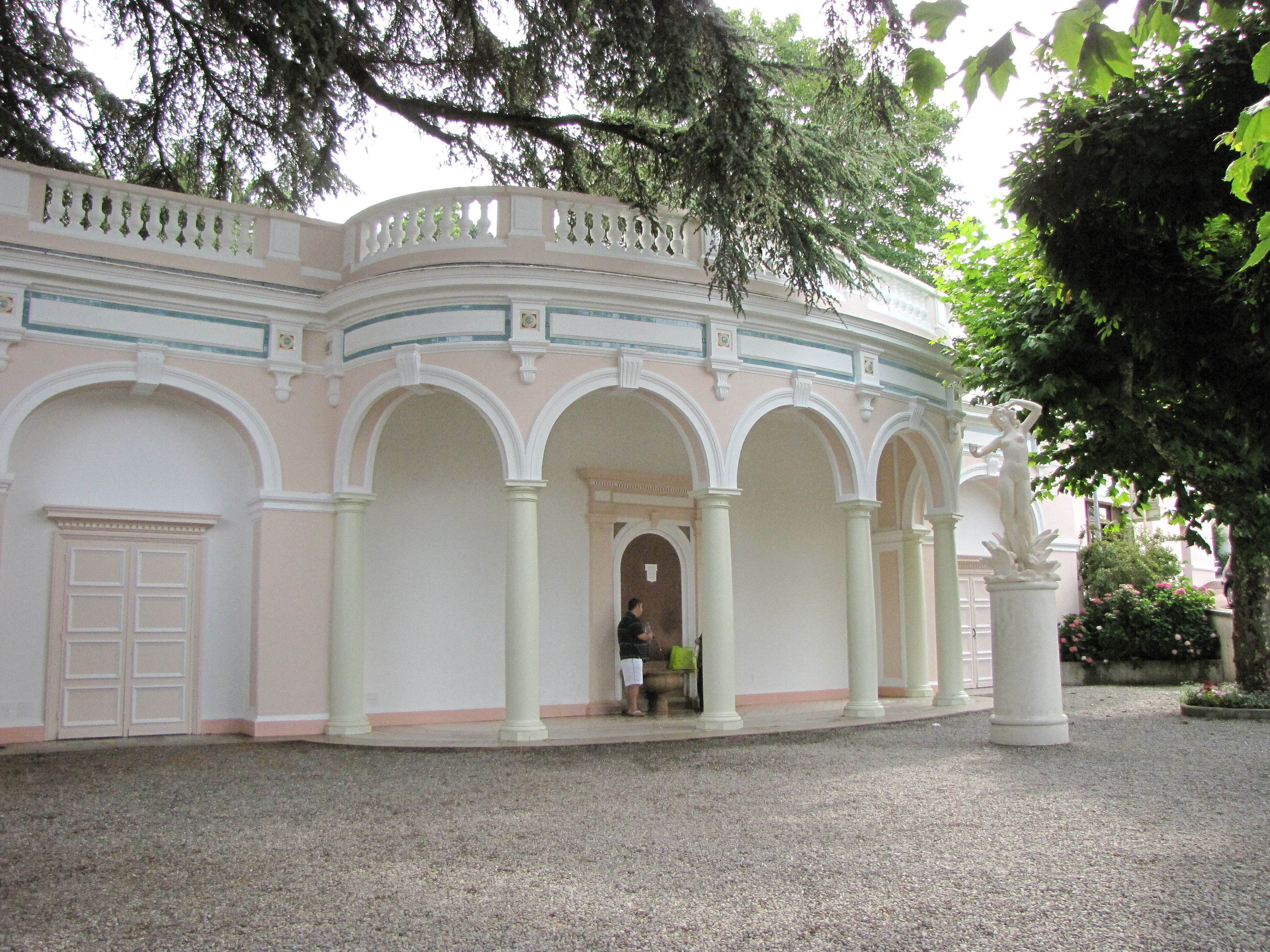 This is the Source Cachat. The Evian-Water comes from this source.